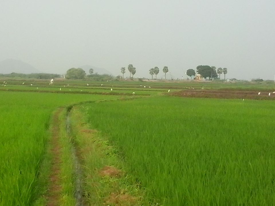 Its Greenary in my village